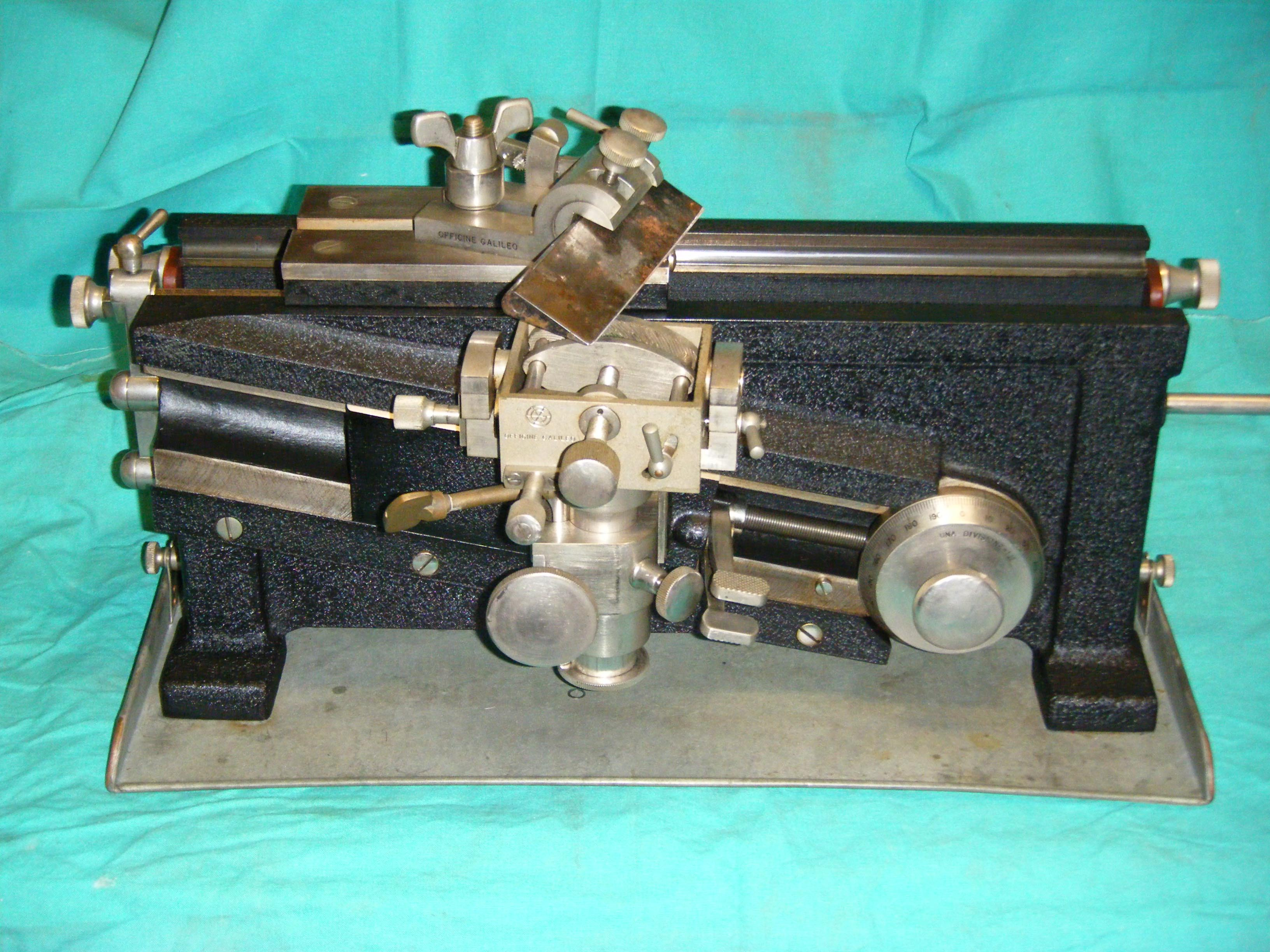 Microtome